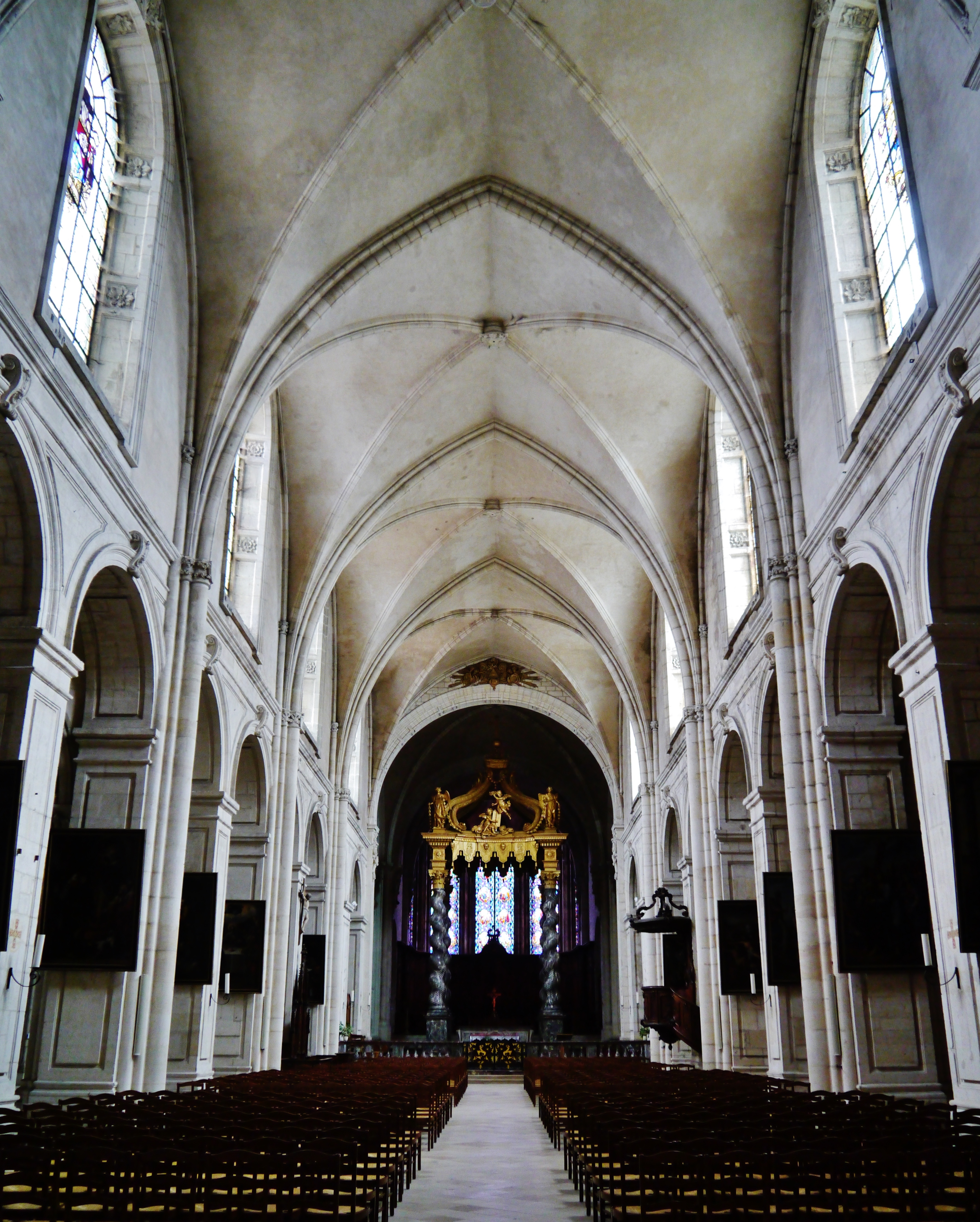 Nave of the Cathedral of Our Lady, Verdun, Département of Meuse, Region of Lorraine (now Grand Est), France